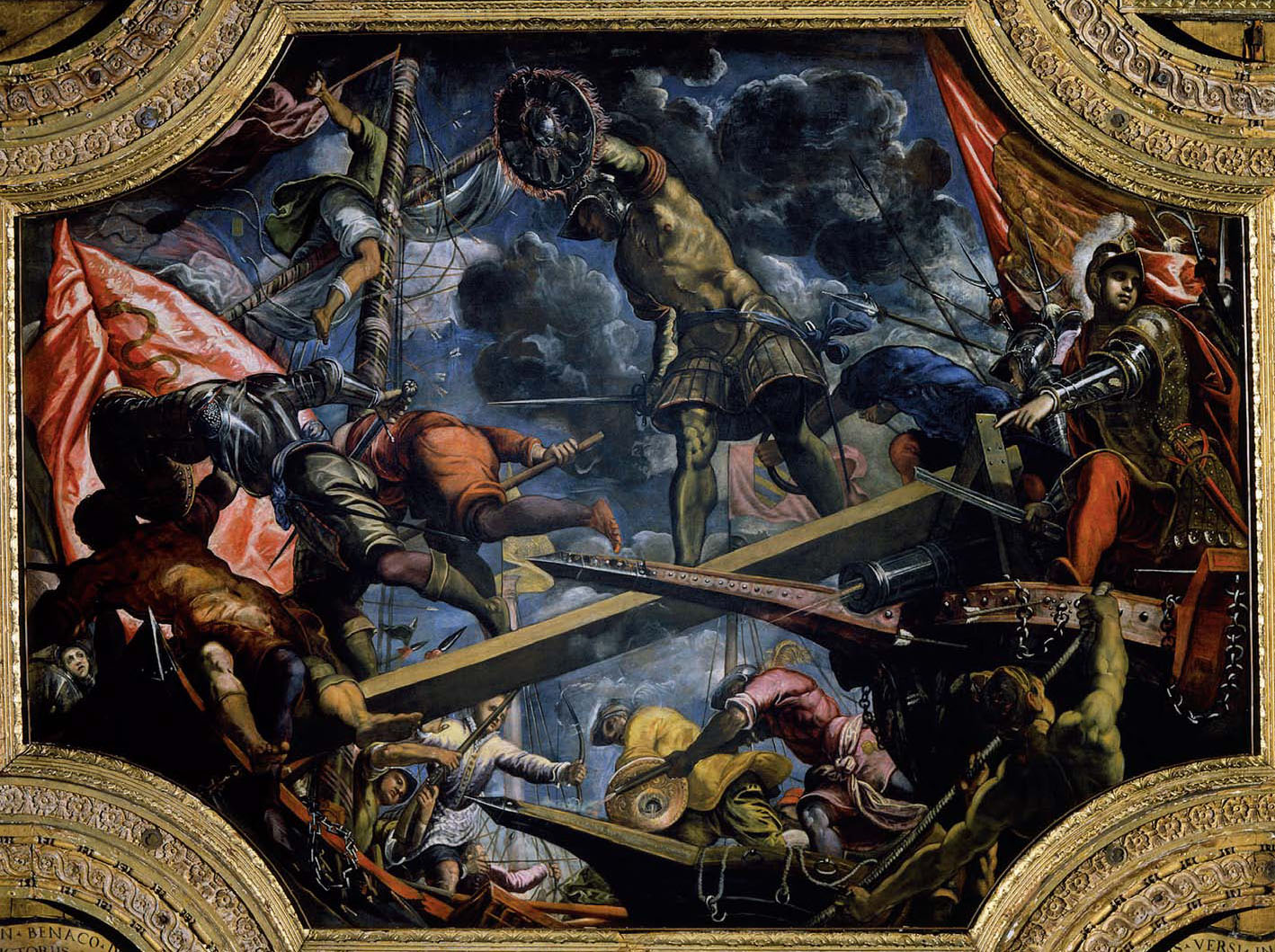 "Galeas For Montes", painting by Tintoretto in the "Palazzo Ducale" in Venice. It depicts the epic undertaking by the Republic of Venice in 1439 to transport a fleet through the Adige river to Rovereto and from there by land for 12 km to the Torbole town in Garda Lake.